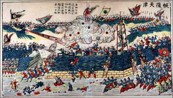 Nianhua print: The recapture of Tianjin The recapture of Tianjin. After gaining access to the city arsenal, the Boxers bombarded Tianjin in June 1900, as Admiral Seymour and his expeditionary force, bound for Peking, were attacked by Dong Fuxiang's forces just outside the city. The bombardment inflicted considerable damage, especially on the Chinese houses inside the walled Chinese city. The more solid, western buildings of the foreign concessions fared better. This nianhua is dominated by the city walls and there is a group of soldiers with tiger shields in the bottom right-hand corner. The troops under Dong Fuxiang's command were Muslims.